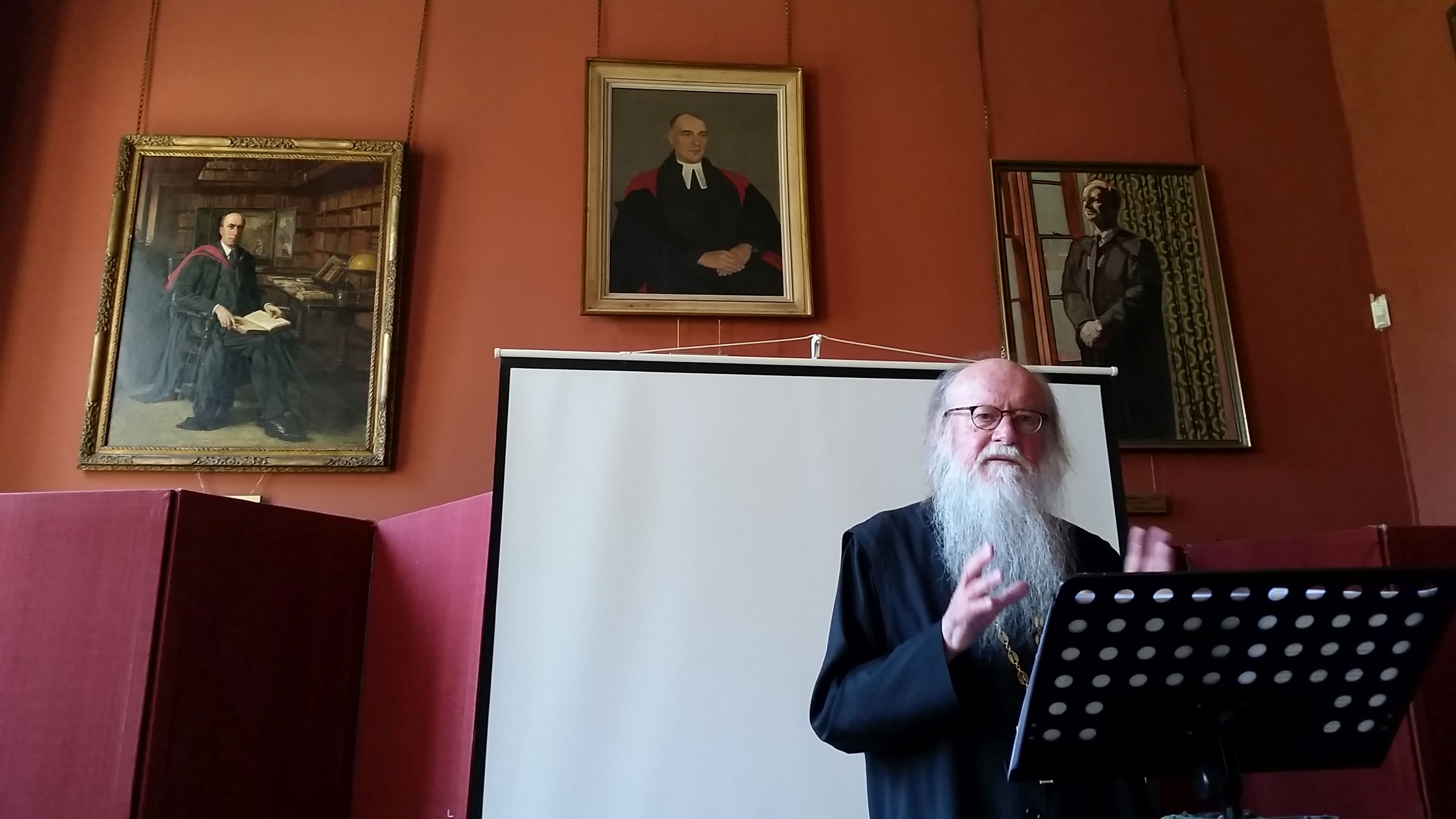 Andrew Louth at the 2017 annual conference of the Society for Ecumenical Studies, St Edmund Hall, Oxford, speaking in the Old Dining Hall in front of the portrait of A B Emden on 'Does the Orthodox Church need a reformation?'